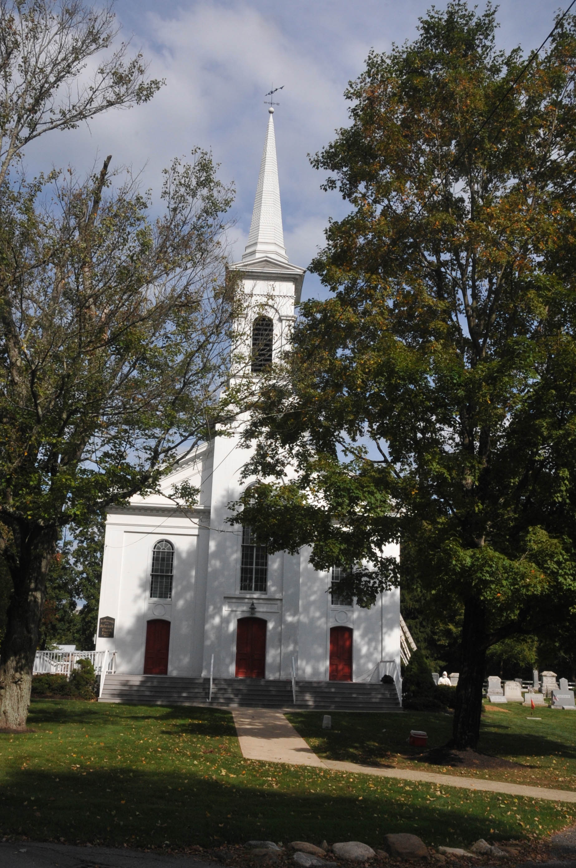 LOCATED ON THE LAMINGTON RIVER AND NOTED EARLY ON FOR ITS FEED AND FLOUR MILLS; POTTERSVILLE REFORMED CHURCH ERECTED IN 1866